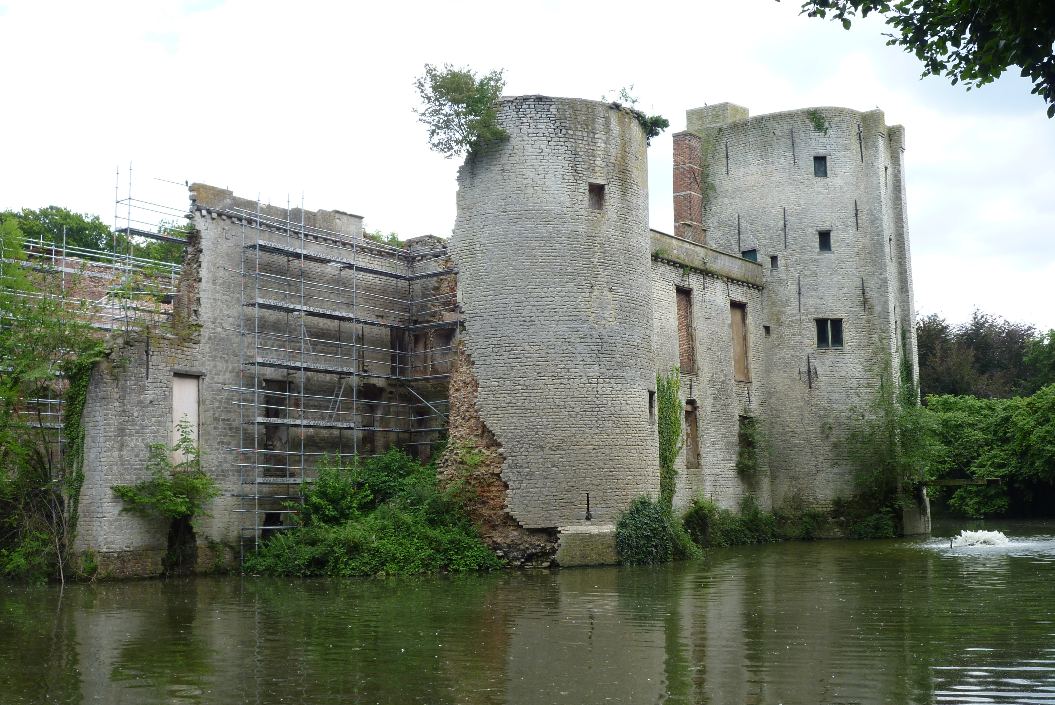 Ruines of the Grimbergen Prince Castle. The Castle was burnt in 1944 by the retreating German army, while the Donjon tower has been restored in 1992. Further restoration is in progress.